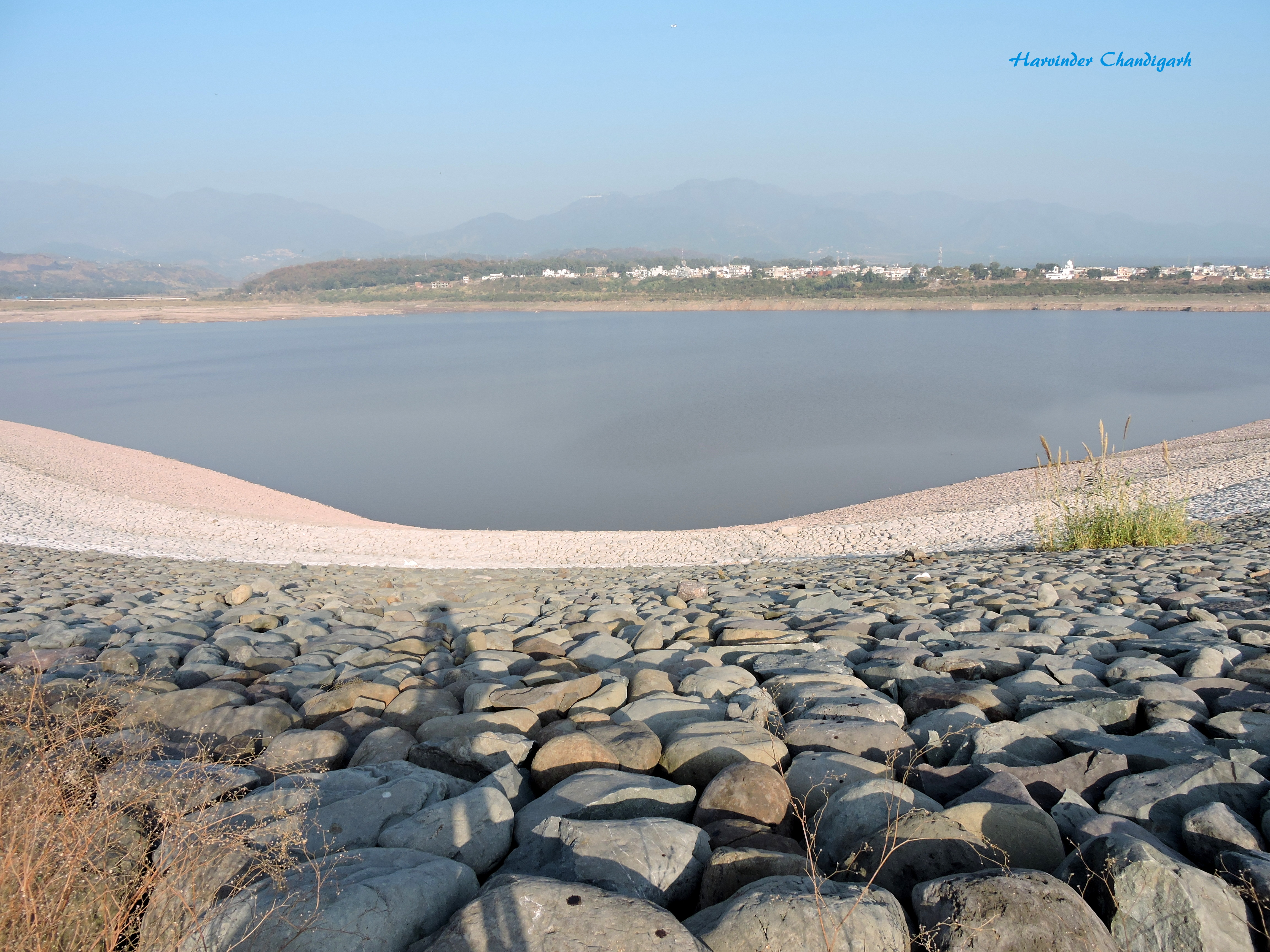 Kaushalya dam, Pinjor, district panchkula , Haryana, India